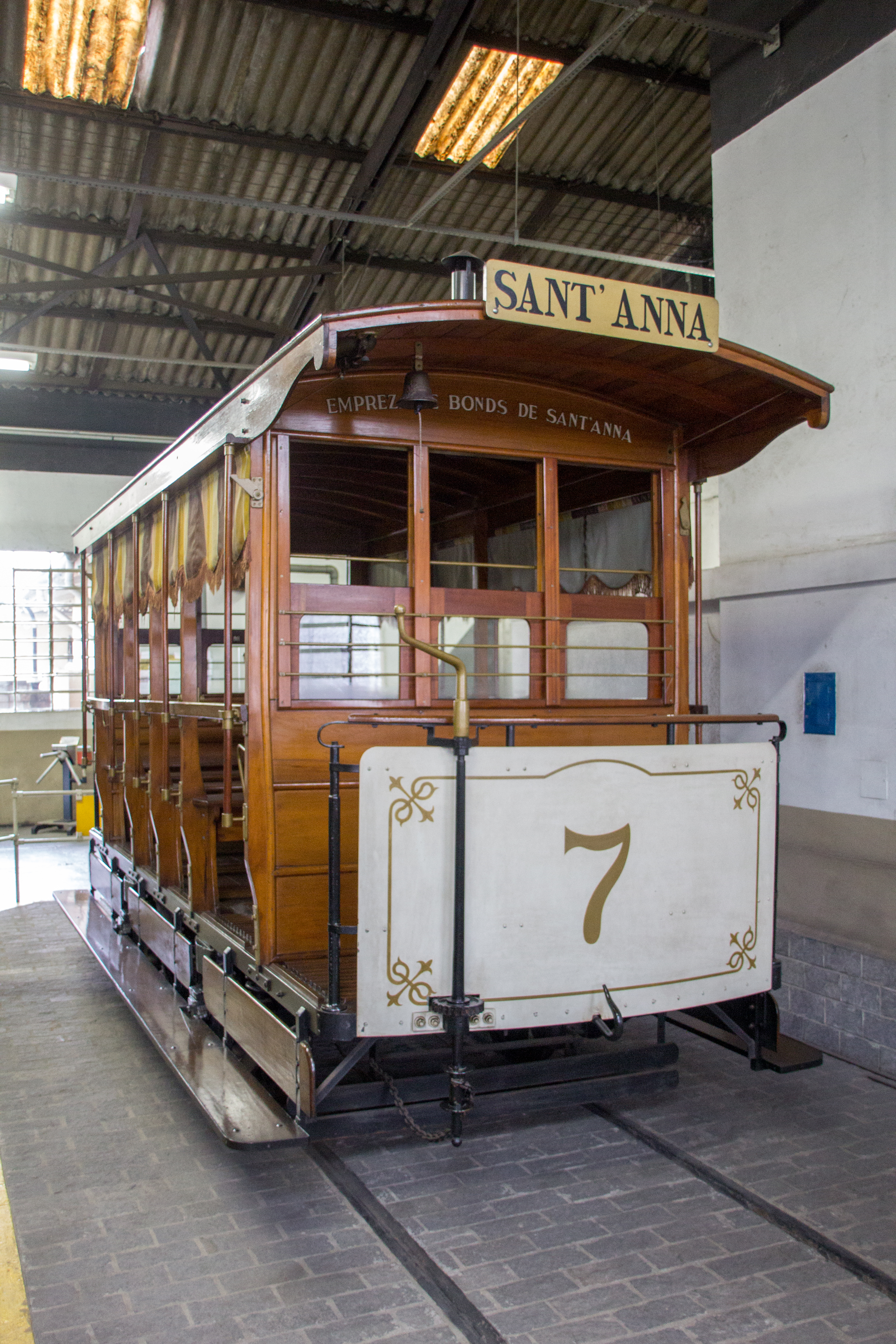 Museu do Transporte Público Gaetano Ferolla, São Paulo, Brazil. Bonde de Tração Animal. 1892-1900. Nümero de assentos: 20. Comprimento: 5,10 metros. Largura: 2,10 metros. Altura total: 2,85 metros. Tração: dois animais de carga